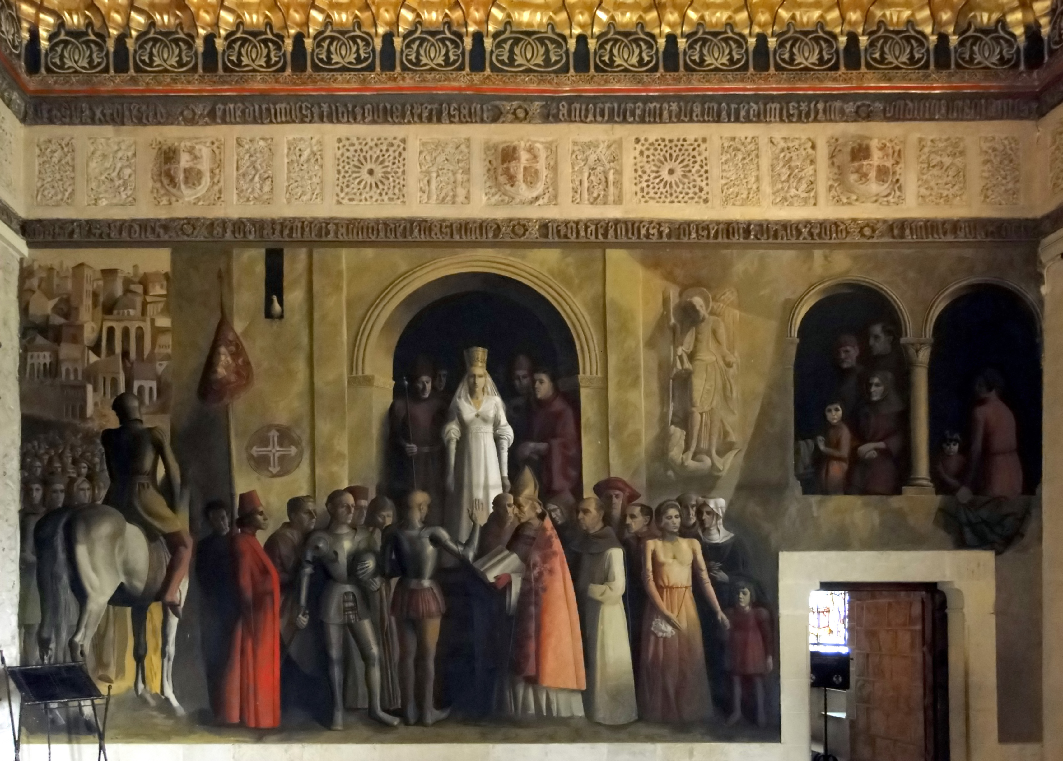 Painting representing the coronation of Isabella the Catholic as the Queen of Castile and León in Segovia. This mural was painted by the artist Carlos Muñoz de Pablos. It is located on a wall of the Gallery Hall in the Alcázar of Segovia, Spain